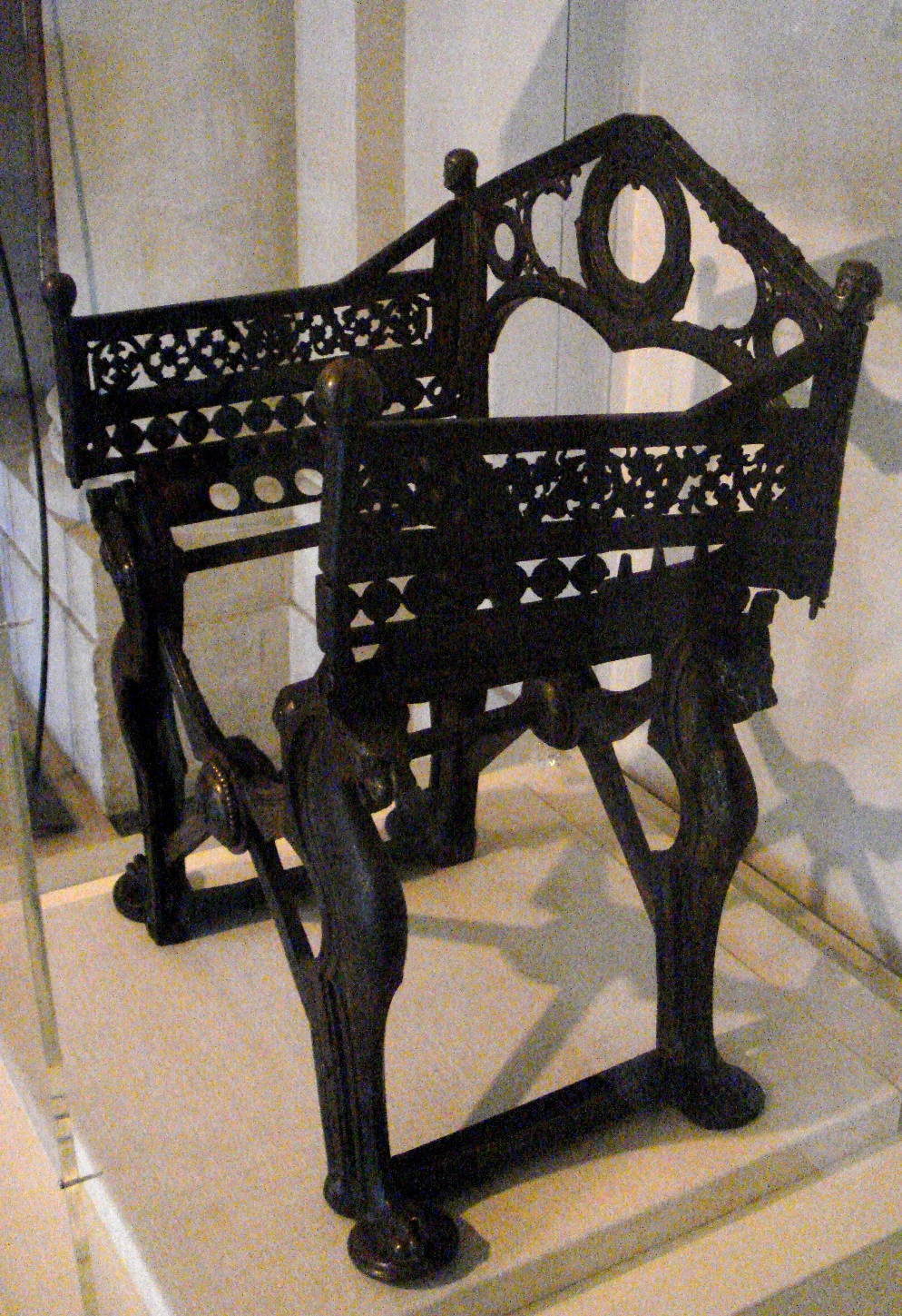 Faldstool of Dagobert (603-639)